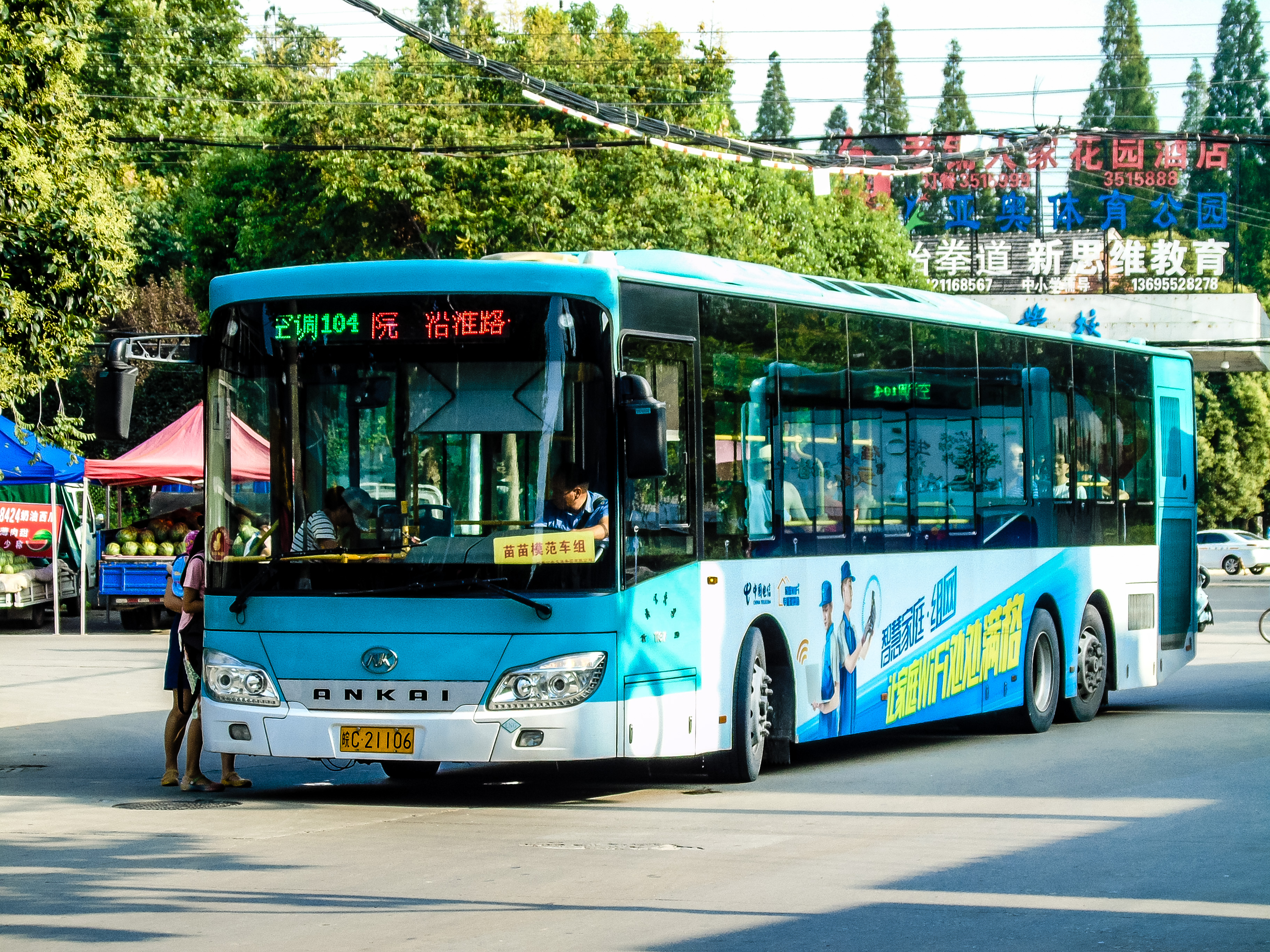 Bengbu Bus No.104 N1